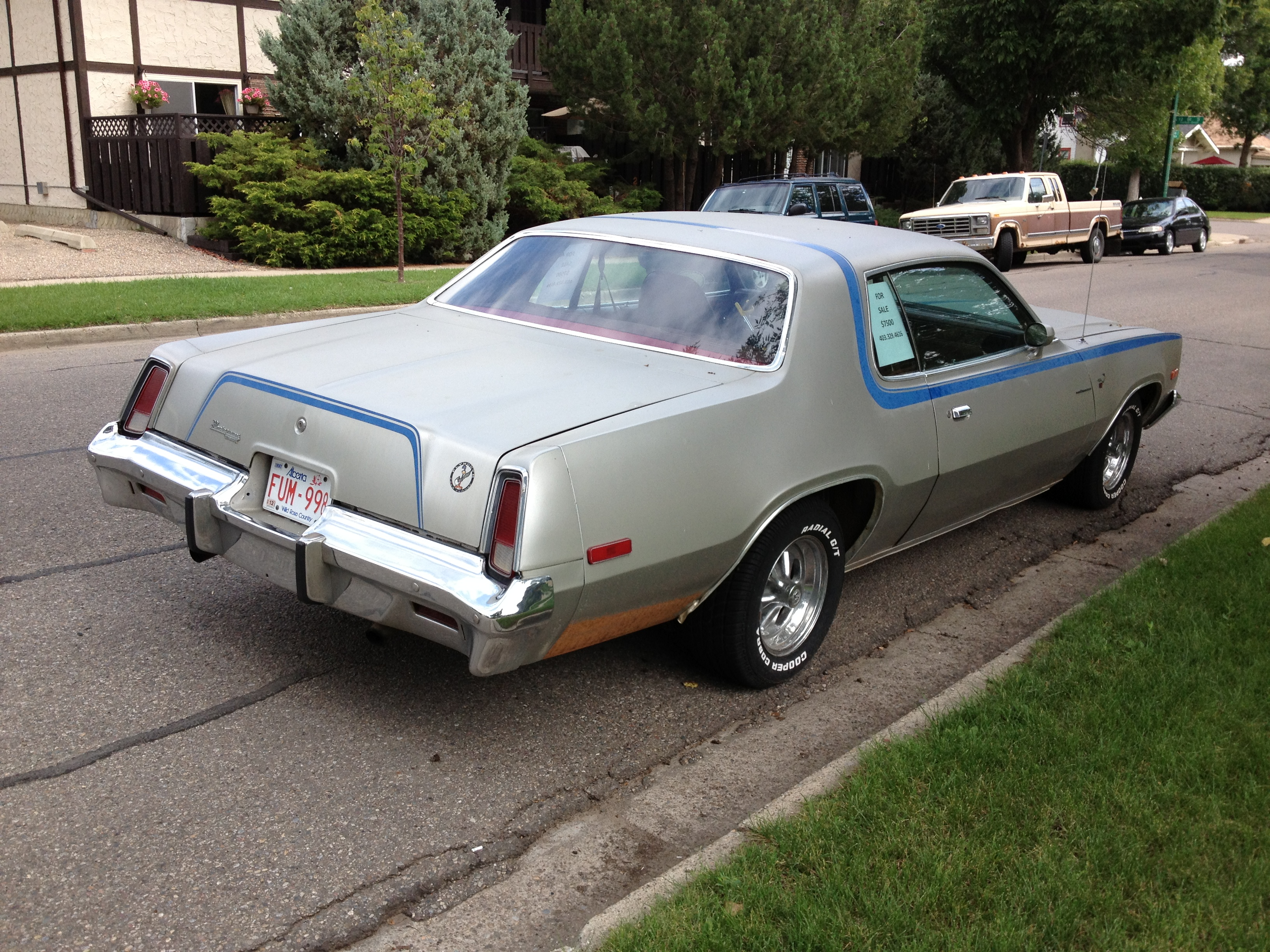 A one year only design on the B-body (Fury) platform there were only 7,183 Road Runners made in 1975. A 318cid V8 was standard while a 360cid or 400cid could be had.